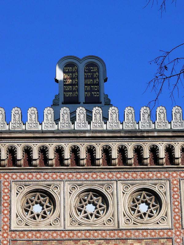 The gable of the Dohány Street Synagogue in Budapest